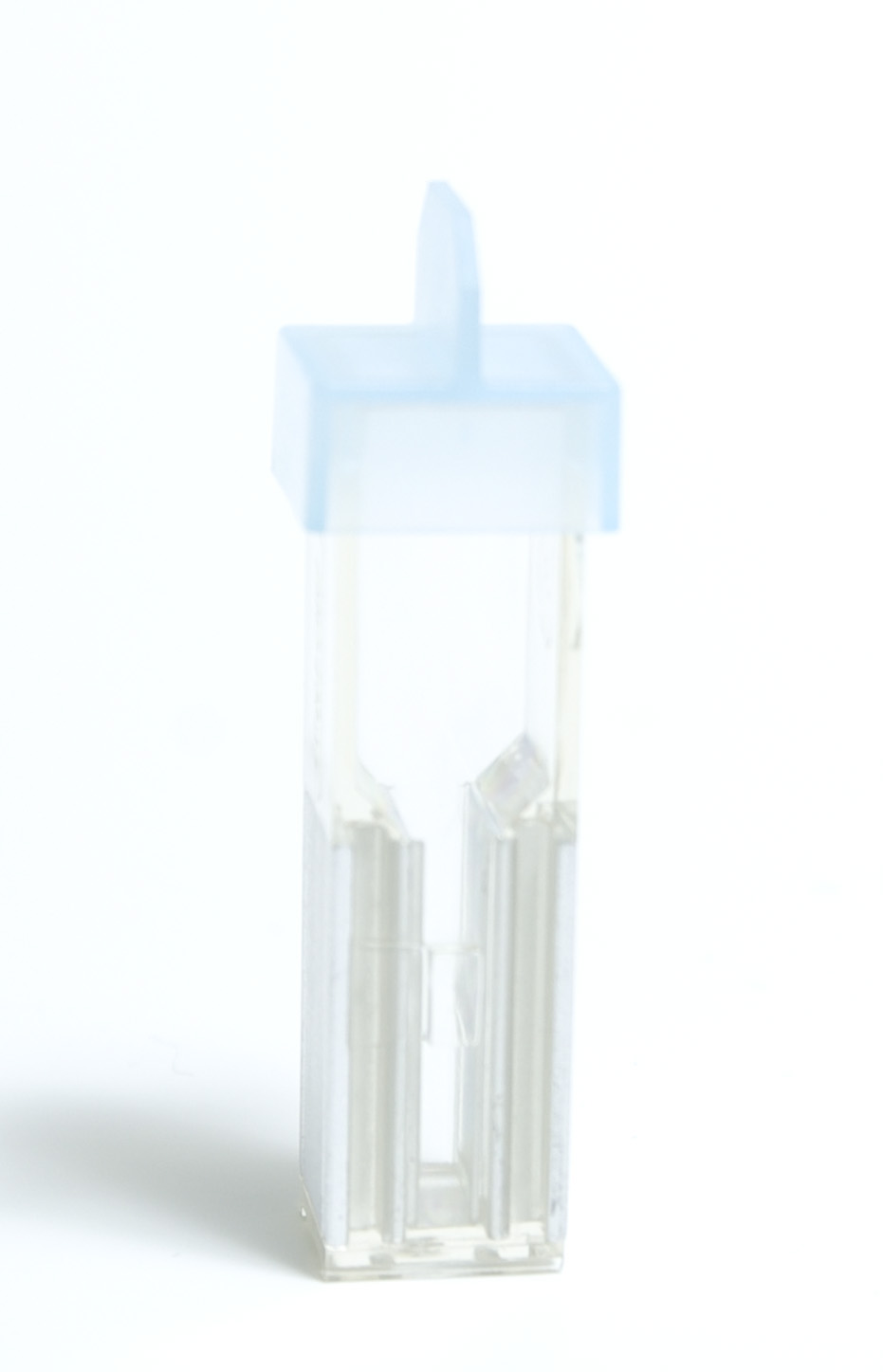 Cuvette for electroporation.